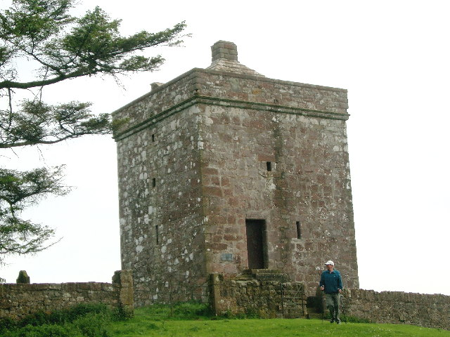 Repentance Tower. Ancient tower and burial ground overlooking Hoddom Castle